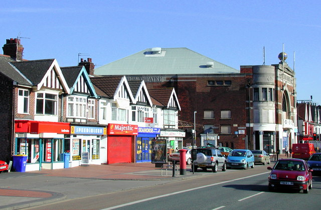 Anlaby Road, Hull Looking east-northeast towards the Carlton Theatre from just west of Stirling Street. Designed by Blackmore and Sykes and built by Greenwood and Sons, the Carlton opened on September 9th 1928 showing the silent film "Lonesome Ladies". It was a lavishly decorated cinema with a Fitton and Haley organ which was later removed to the more central Cecil Theatre, destroyed by bombing during World War 2. The Carlton closed in April 1967 and was used as a bingo hall until fairly recently. The building is now disused.